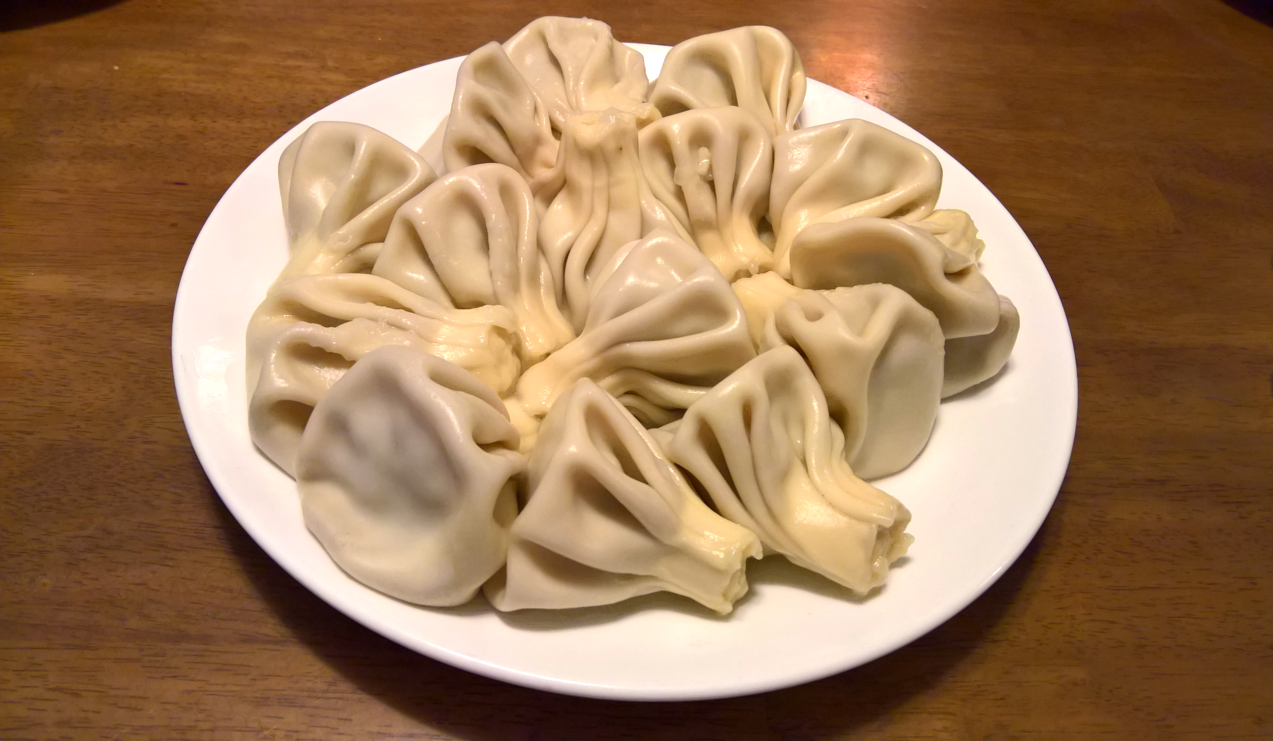 A plate of khinkali, Georgian dumplings stuffed with meat.